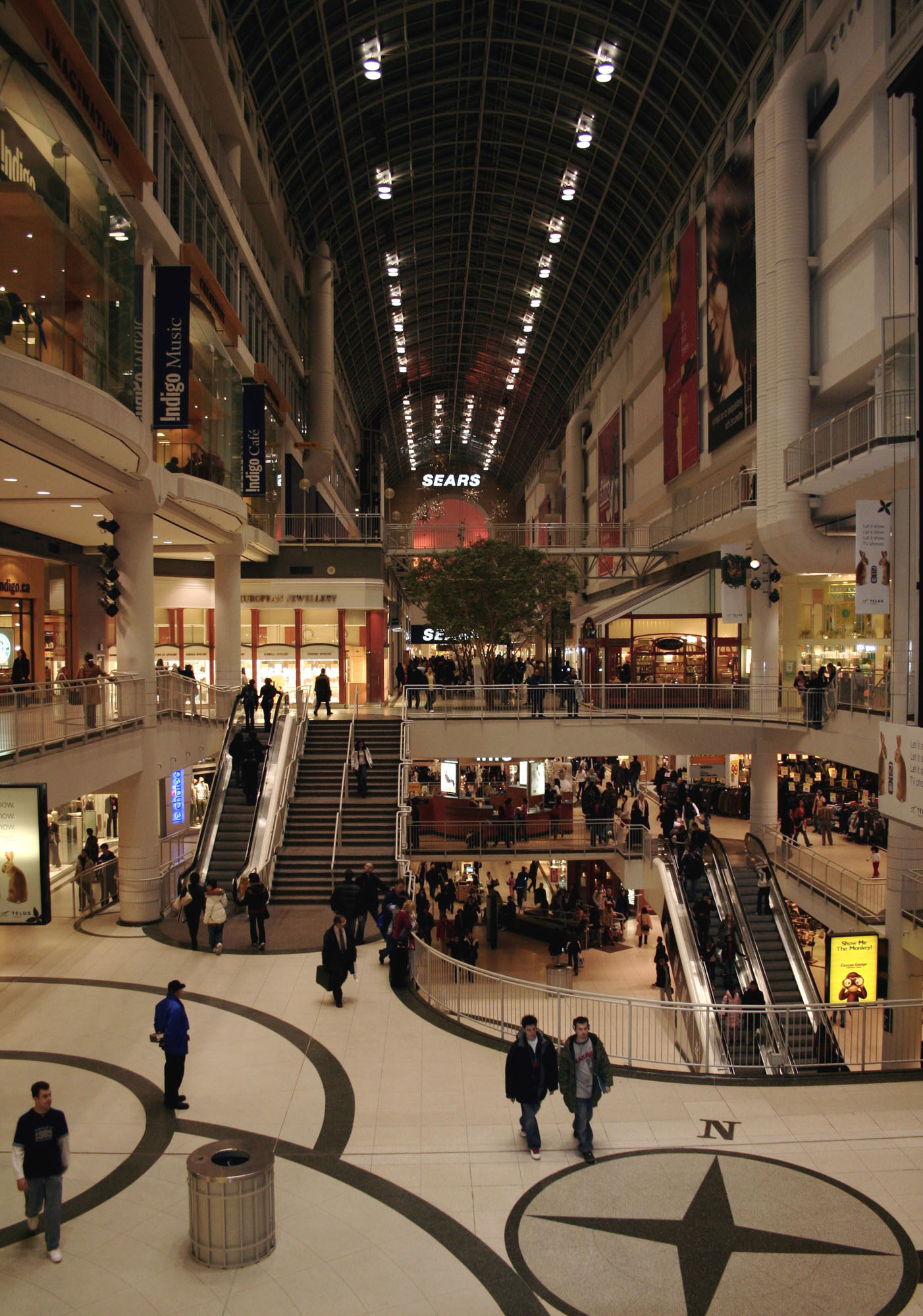 The Toronto Eaton Centre in the evening. The image might need some brightening to make it more visible.